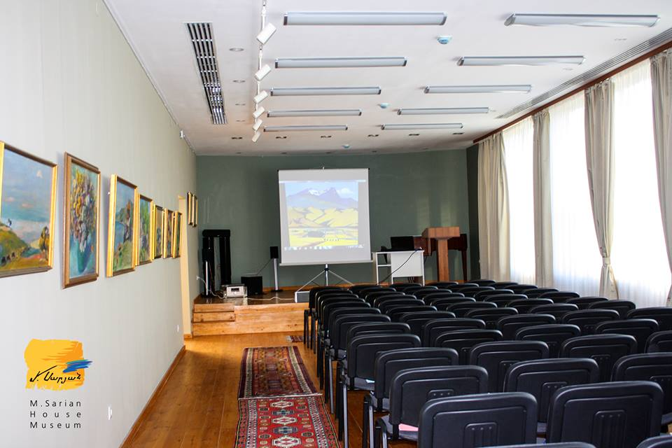 The hall called after Lazar and Araksi Sarians